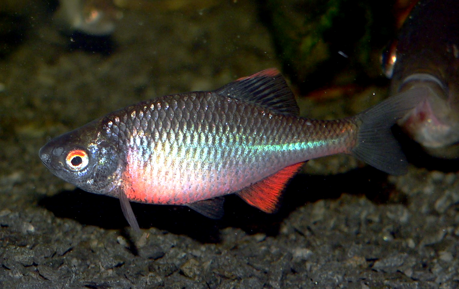 European bitterling, male